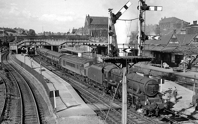 Rotherham (Masborough) Station, with train. View northward, towards Leeds, York etc.; ex-Midland main trunk line, London - Leicester/Nottingham and Bristol - Birmingham - Derby - Sheffield - Leeds/York - Carlisle. The train is the Up 'Waverley', 10.15 Edinburgh via Carlisle - London St Pancras, with Stanier Class 5 No. 44871 piloting Type 4 1-Co-Co-1 Diesel No. 157. The Diesel may have been 'unwell', as those early series locomotives often were